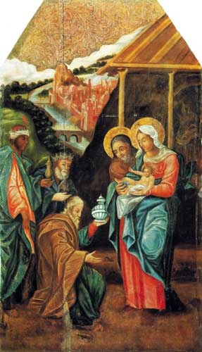 The Adoration of the Magi. 1723-1728.